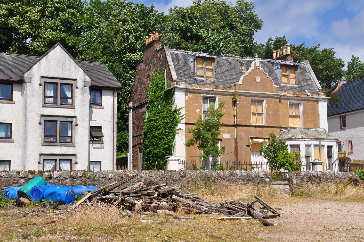 "The Lookout" is a listed, though abandoned, early to mid 19th century classical villa in Lamlash, Isle of Arran, Scotland.